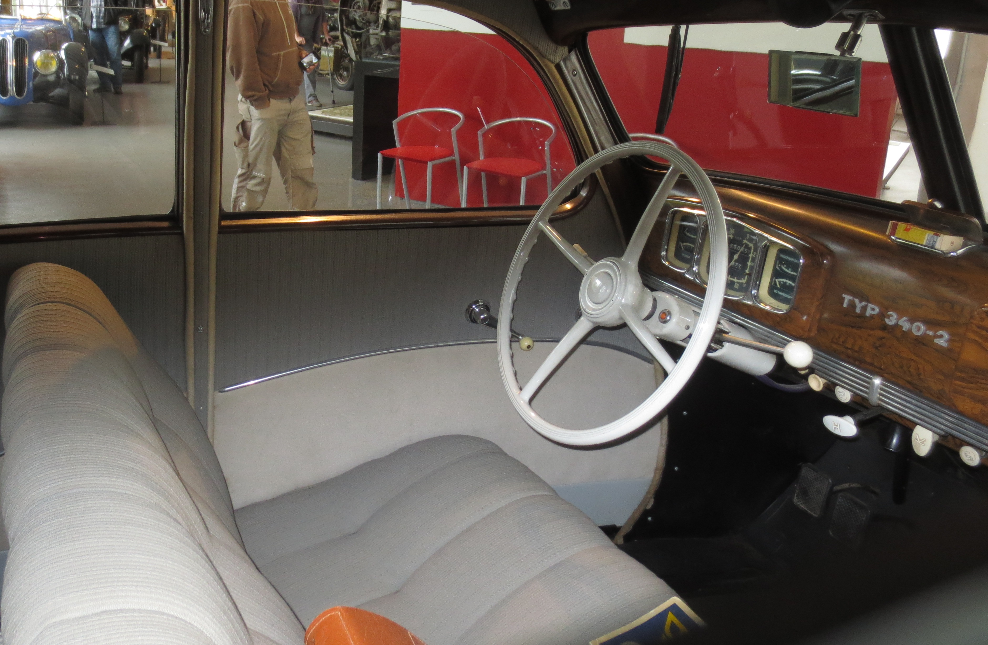 Subject: EMW 340-2: dashboard and steering wheel Author: Luc106 Date:October 10th, 2014 Place/Country: AWE Museum, Eisenach (Deutschland) I release all rights in the public domain.